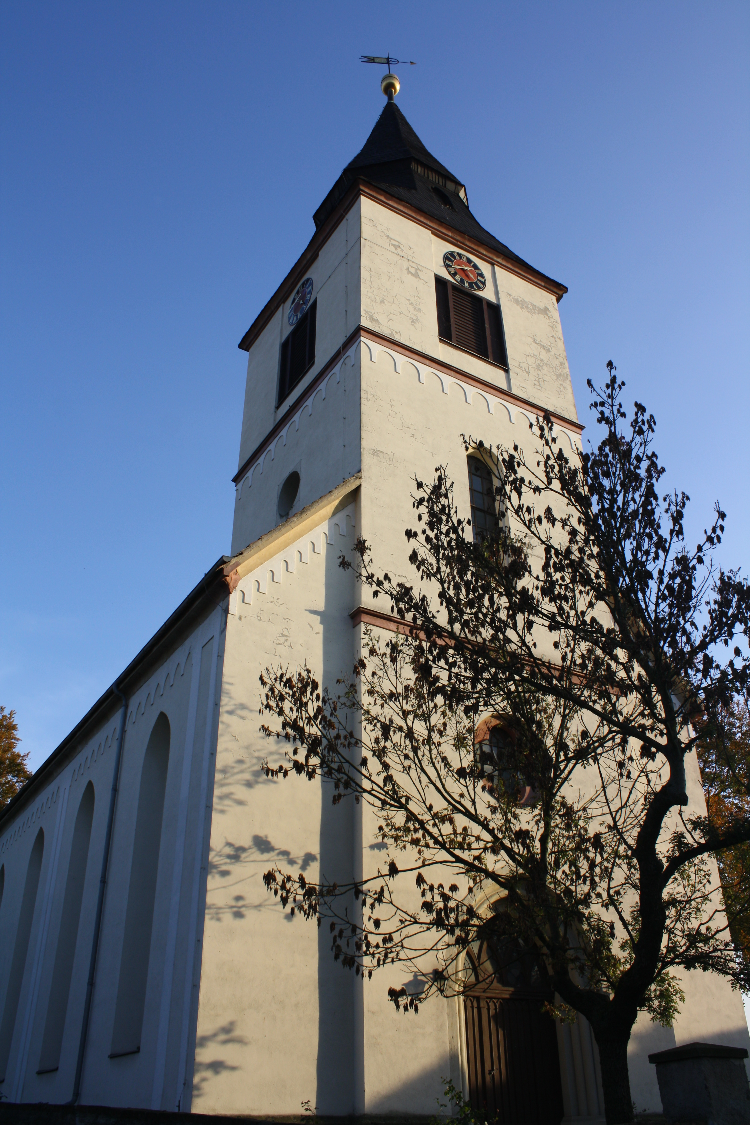 Church in Nobitz near Altenburg/Thuringia